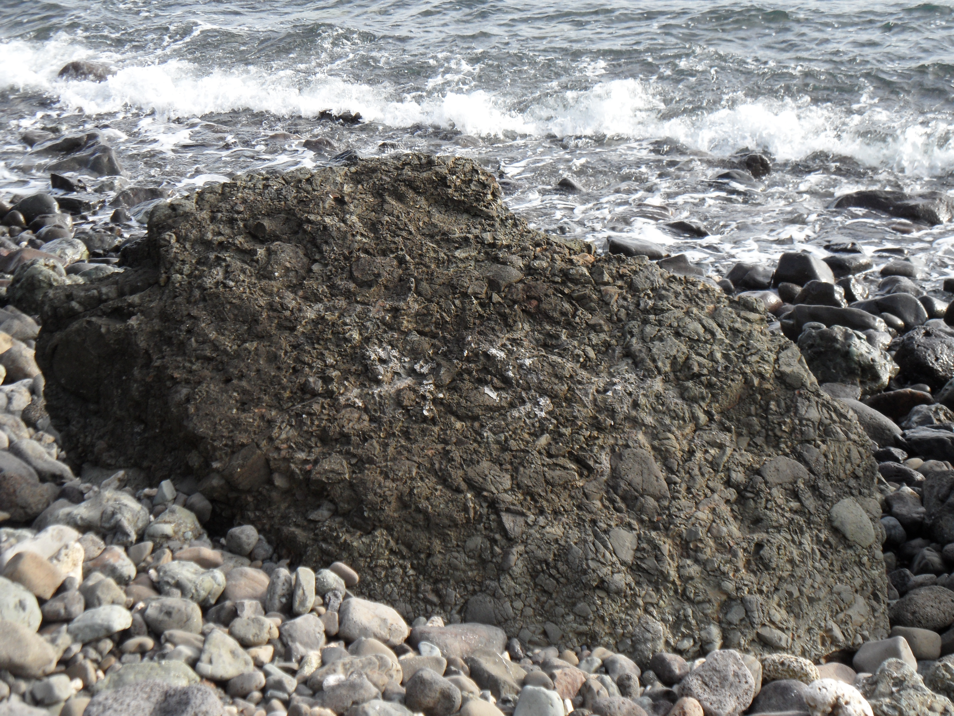 Breccia Mt Lidgbird beach Lord Howe Island 10June2011